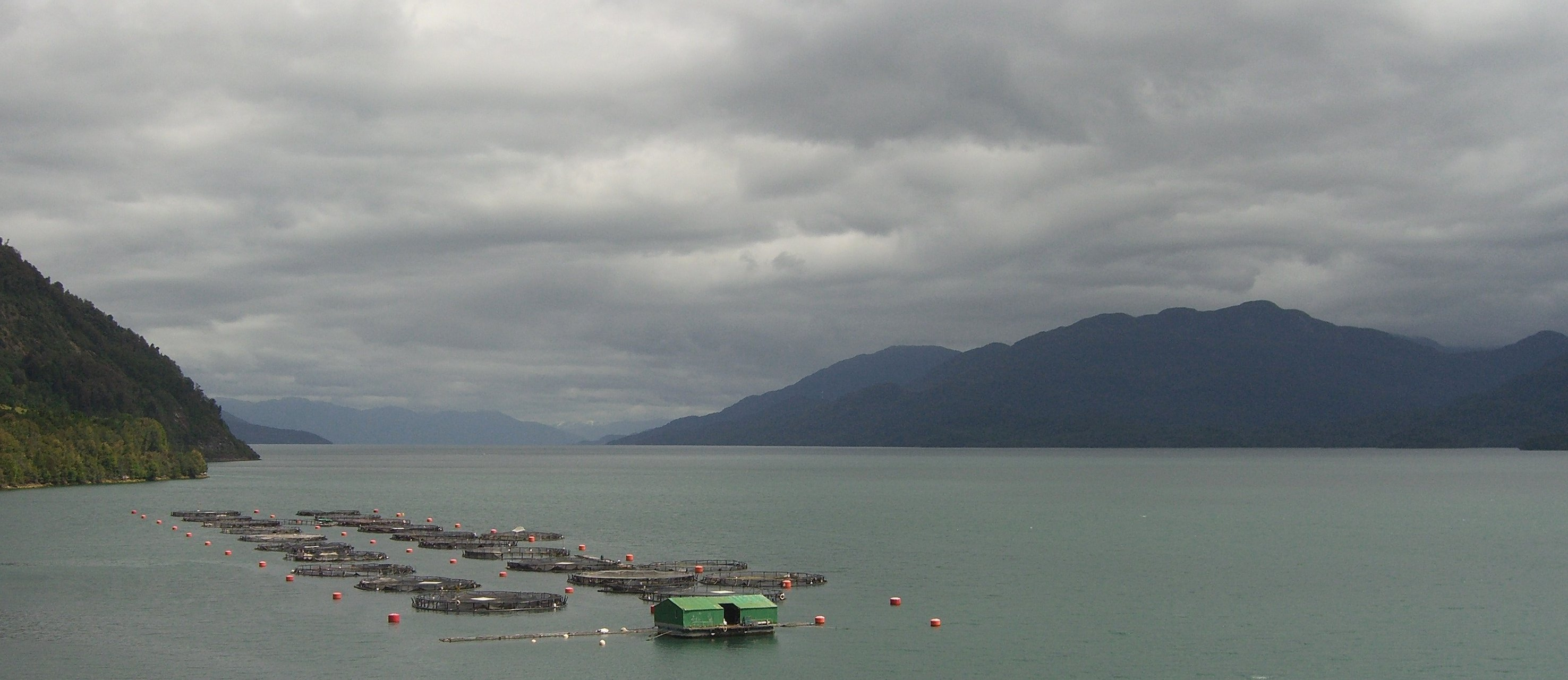 Fish Farm in Fjord near La Junta